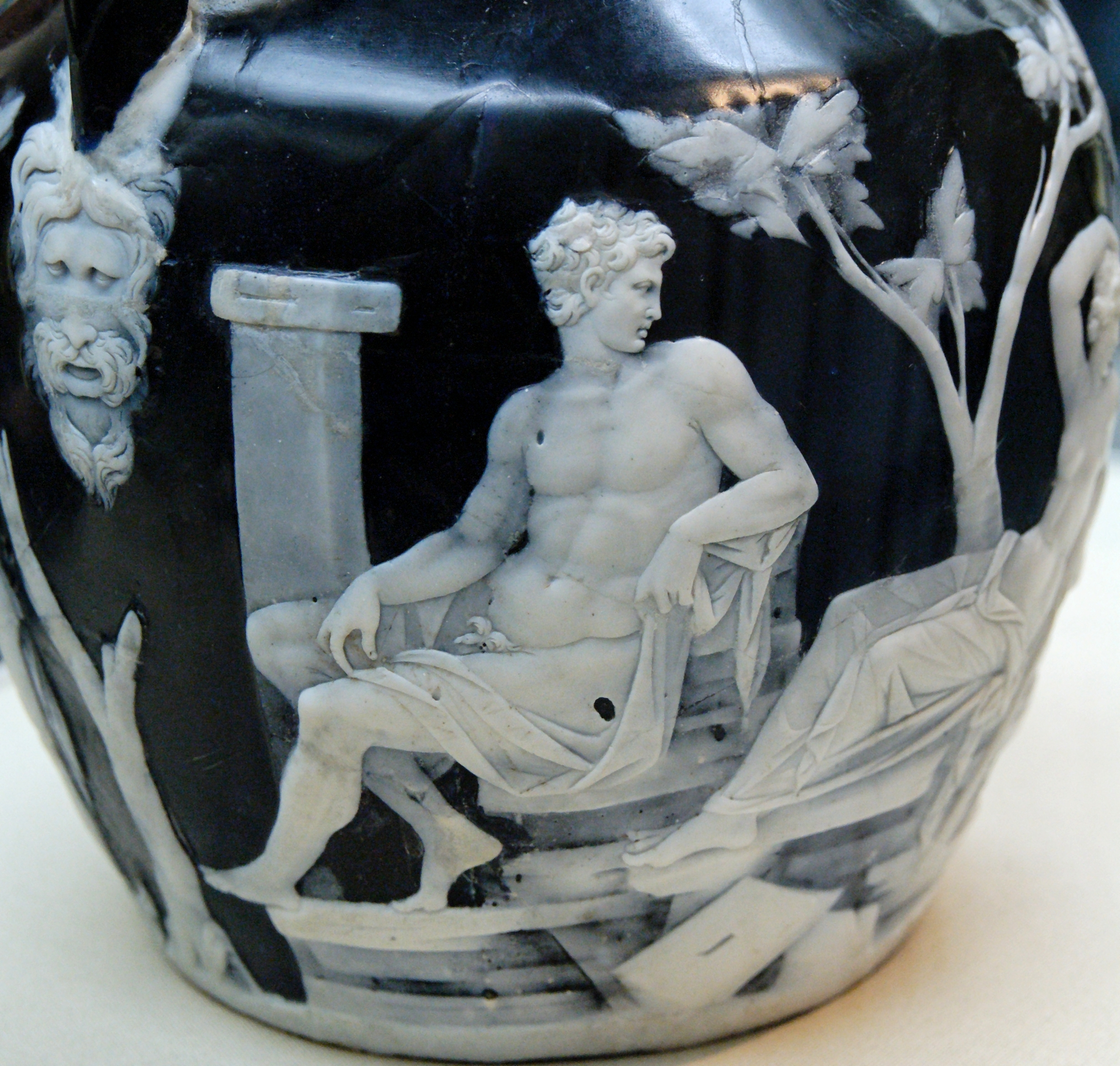 Seated man looking at a recling woman, detail of the side A of the Portland Vase. Cameo-glass, probably made in Italy ca. 5-25 AD.